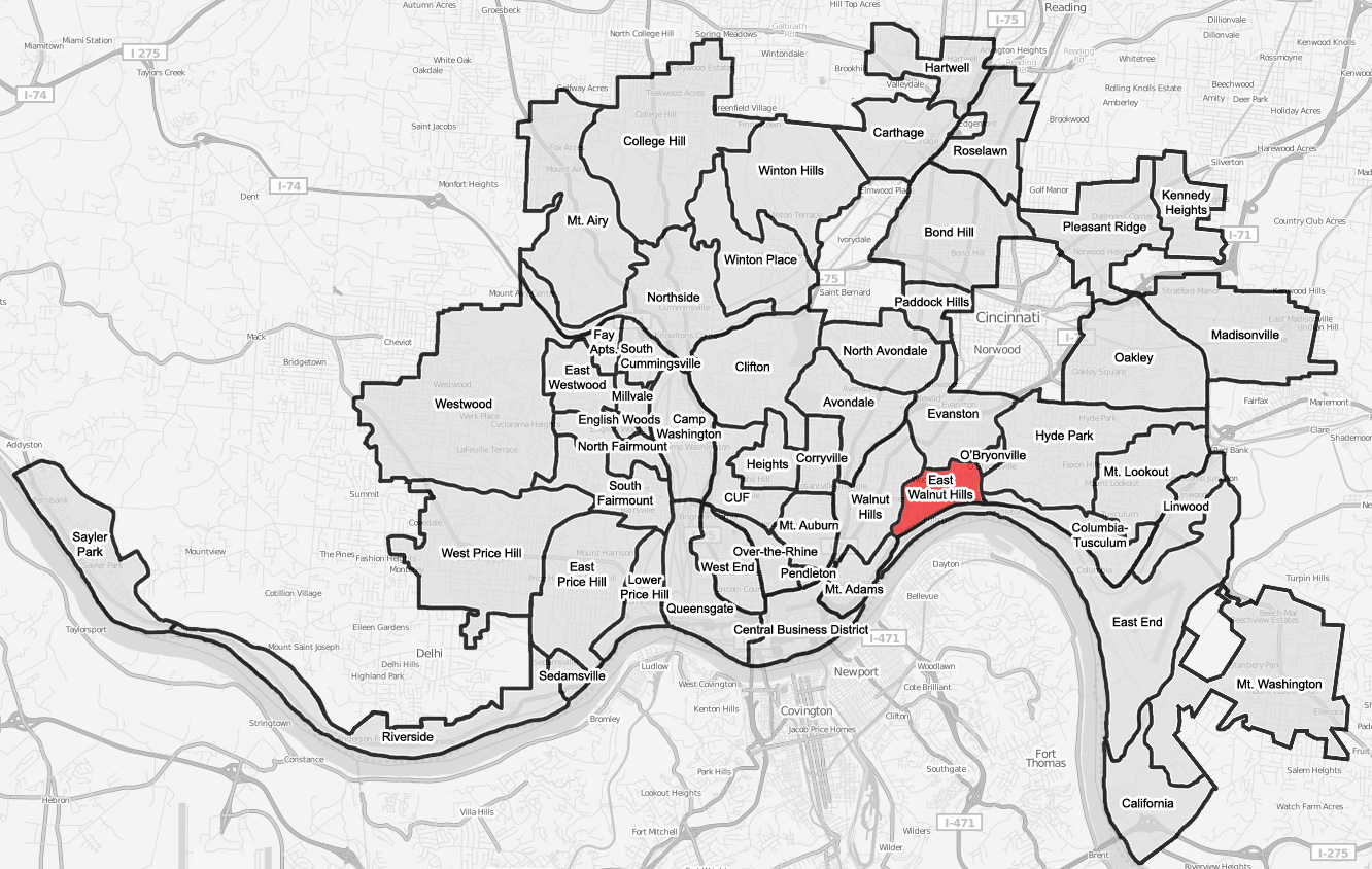 A map of the neighborhood of East Walnut Hills within Cincinnati, Ohio. Neighborhood lines are based on information from This street map is derived from a free map.